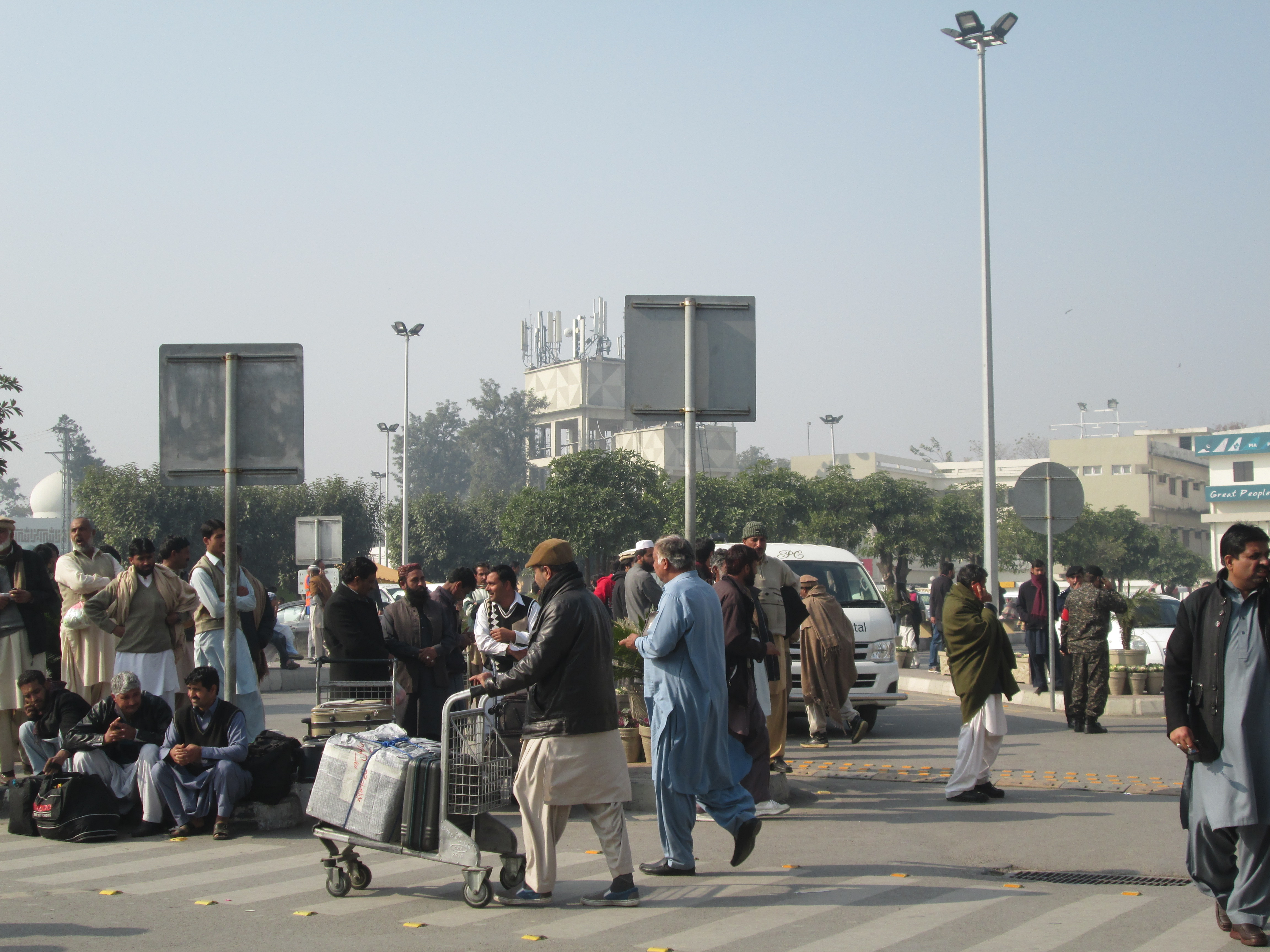 The airport's parking lot